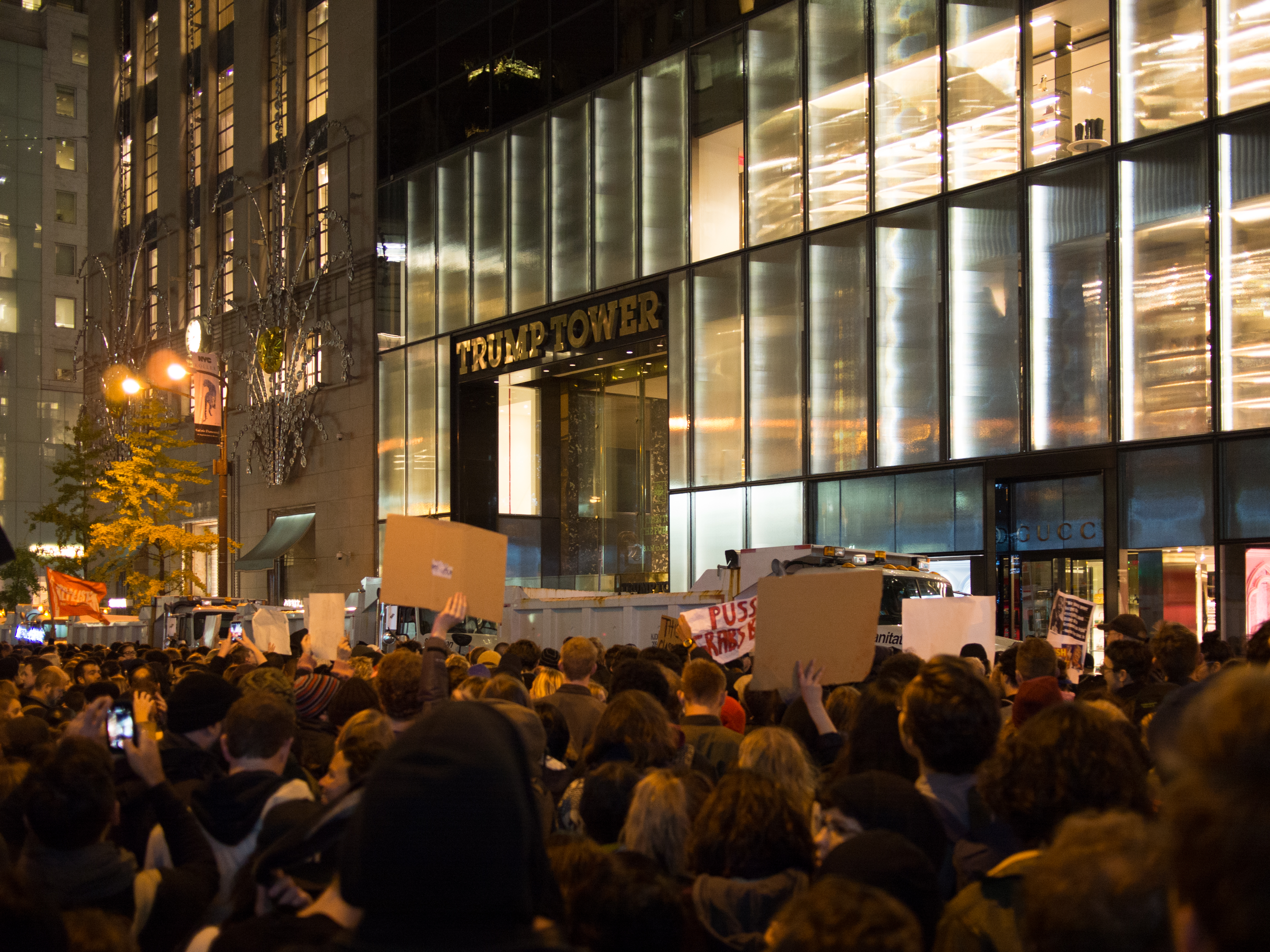 A large protest in Manhattan against the presidency of Donald Trump on November 9, 2016, the day after election day. The crowd spanned a few blocks, centered on Trump Tower.